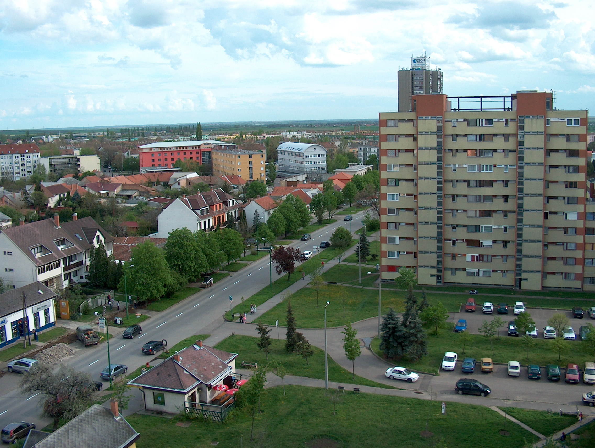 Gyöngyös city Pesti street